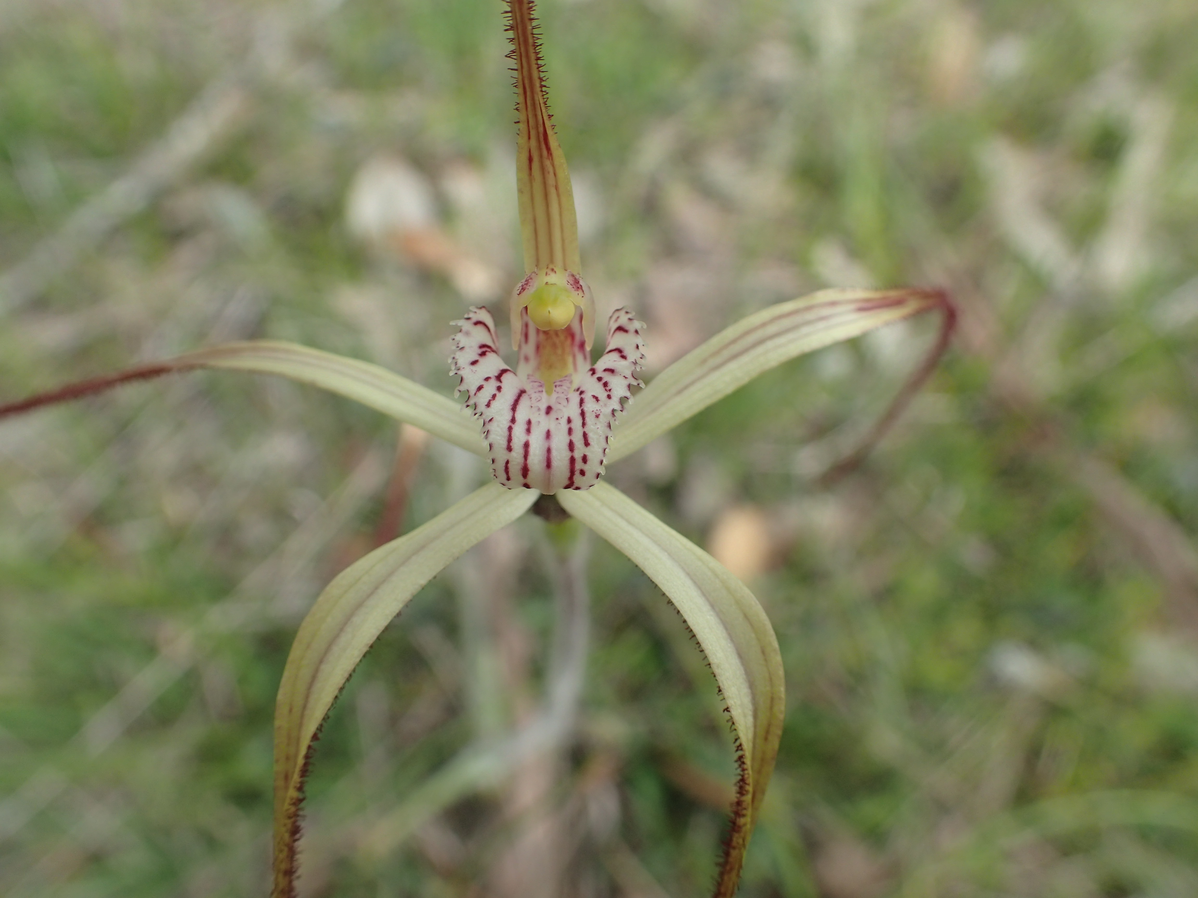 Caladenia pendens subsp. talbotii growing near Qualen Road in the Wandoo National Park in Western Australia